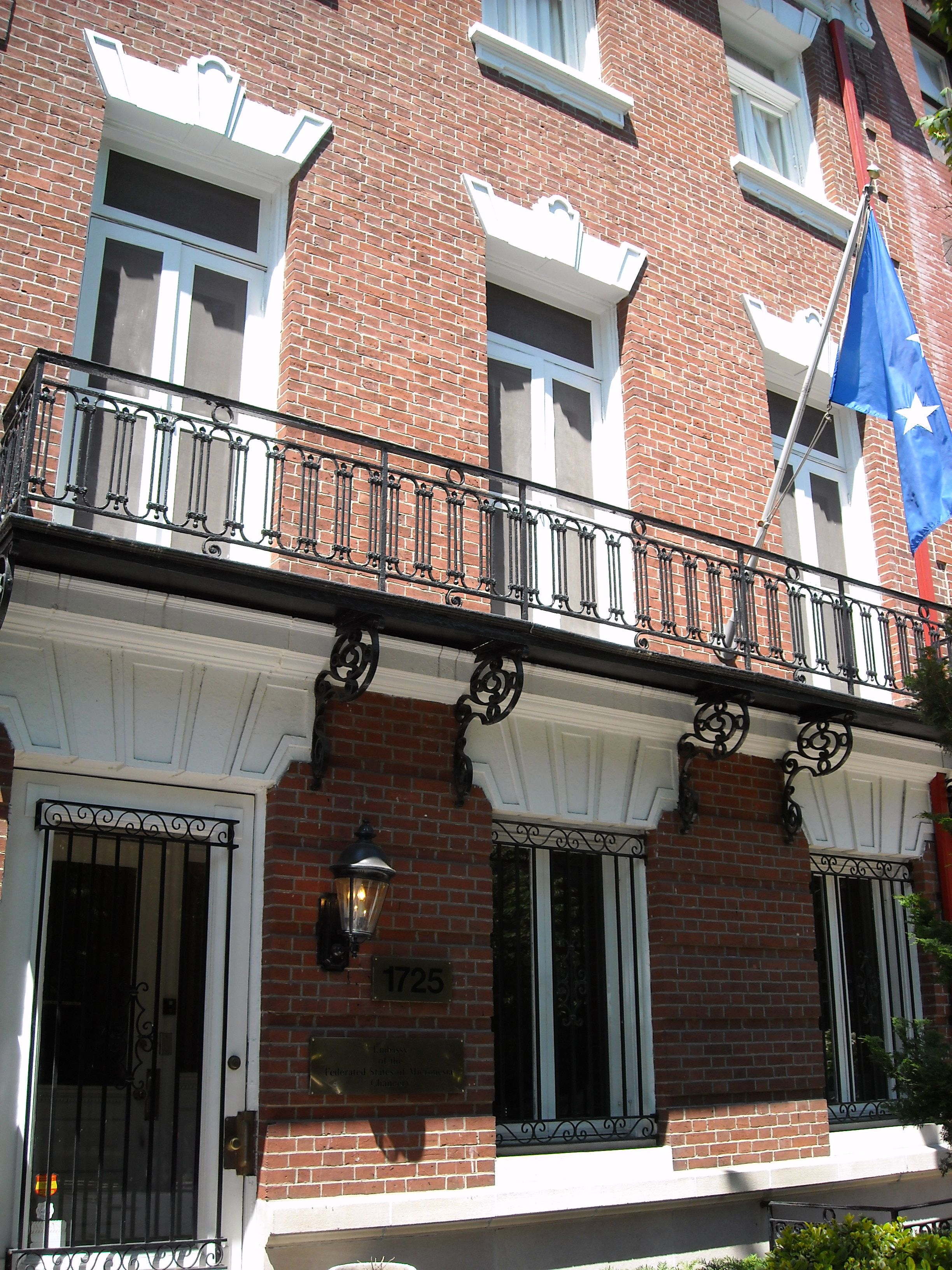 Embassy of Micronesia at 1725 N Street, NW in the Dupont Circle neighborhood of Washington, D.C.